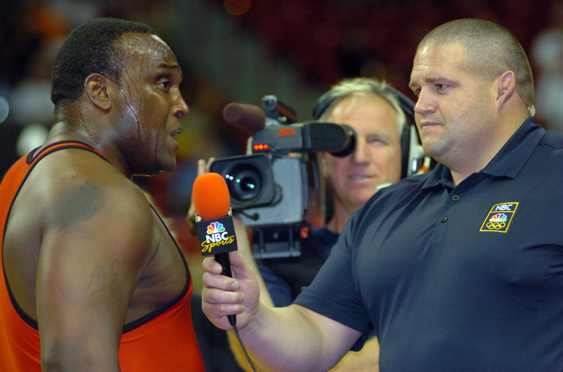 Two-time Olympic Greco-Roman heavyweight medalist Rulon Gardner, right, now a color analyst for MSNBC Sports, interviews 2008 U.S. Olympic Greco-Roman heavyweight Army Staff Sgt. Dremiel Byers, who secured a berth in the Beijing Games with a victory over U.S. Army World Class Athlete Program teammate Spc. Timothy Taylor in the U.S. Team Trials for Wrestling June 15, 2008, at the University of Nevada, Las Vegas' Thomas & Mack Center. Byers and Gardner trained together and battled for spots on two U.S. Olympic teams.